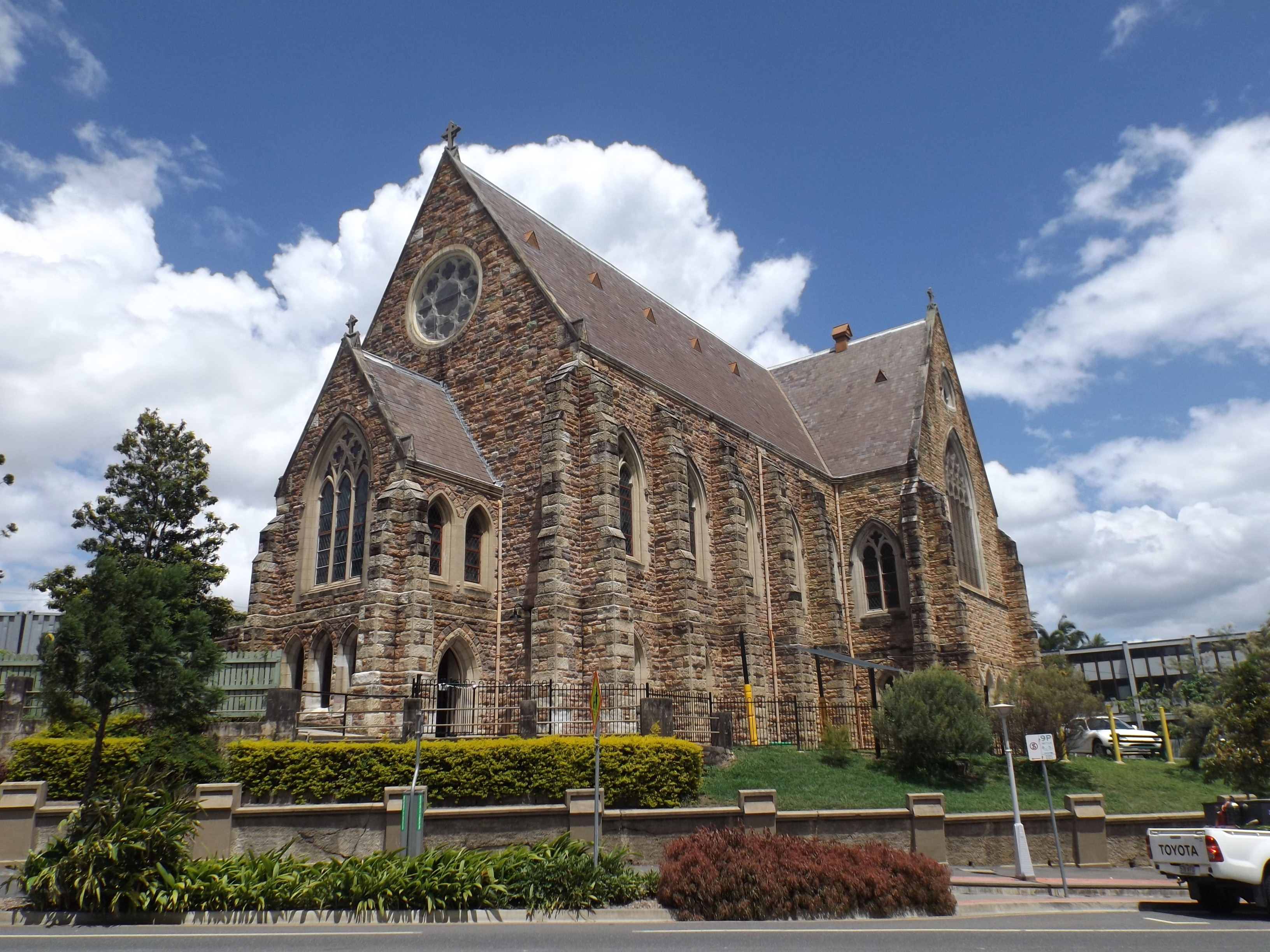 Photo of St Andrews Anglican Church at South Brisbane, Brisbane, Queensland, Australia.